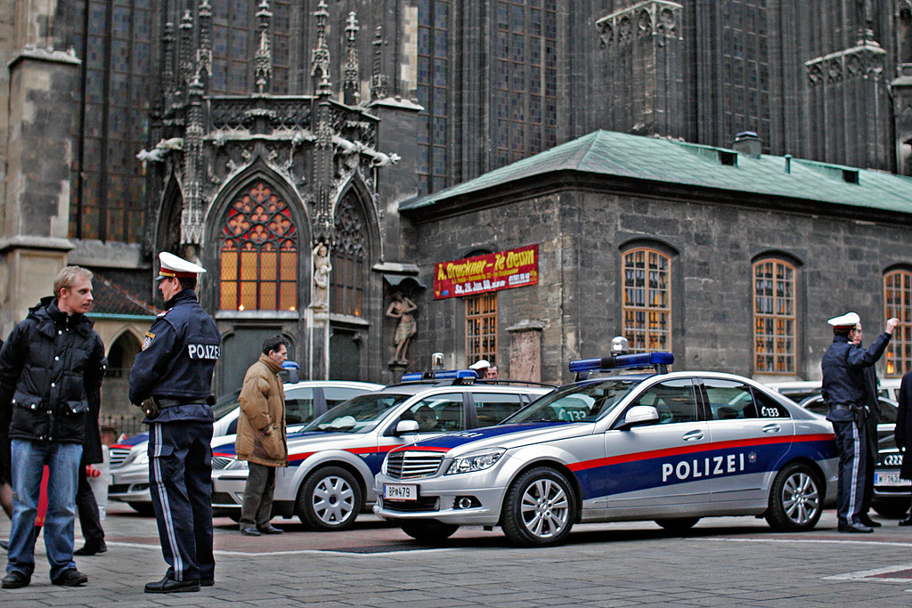 Austria, Vienna, Stephansplatz